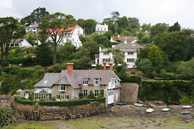 Across Newton Creek Looking across Newton Creek from the Noss Mayo side to some large houses on the Newton Ferrers side.